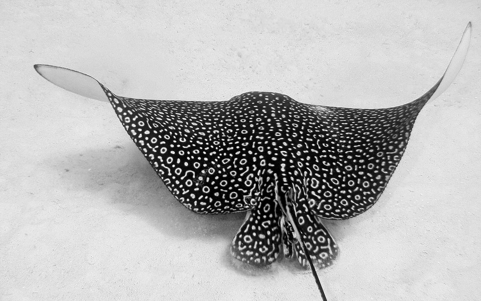 Spotted eagle ray (Aetobatus narinari) - This shot was actually taken by my brother this spring break while diving in the Caymans (I was there too, but he had the camera), but it's going up anyway. Converted to B&W from a color digital in Lightroom, then cropped to fit my screen, but other than that almost entirely untouched. These things are amazing to watch underwater, the way they just glide effortlessly faster than any person could hope to swim.